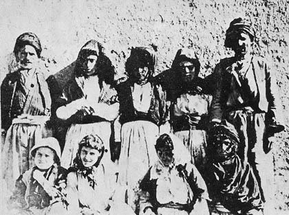 Women rescued from Kurdish captors